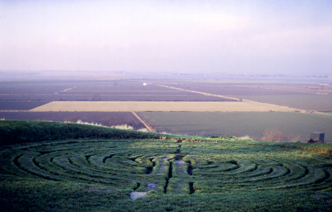 This is a scan of a transparency which I took in the 1970s. It has been slightly cleaned-up in Photoshop. It shows "Julian's Bower", the turf maze at Alkborough in North Lincolnshire, England, which overlooks the "Confluence of the Rivers" (where the rivers Trent and Ouse meet to become the River Humber). Alkborough Flats, the area of arable farmland in the valley below the maze, is to become an intertidal habitat from the end of 2006: it will allowed to flood periodically to encourage biodiversity and reduce pressure on flood defences elsewhere. (Simon Garbutt, 8 Nov 2005) (I retain the ownership and copyright of the original transparency and any higher-resolution scans derived from it) SiGarb 18:20, 8 November 2005 (UTC)